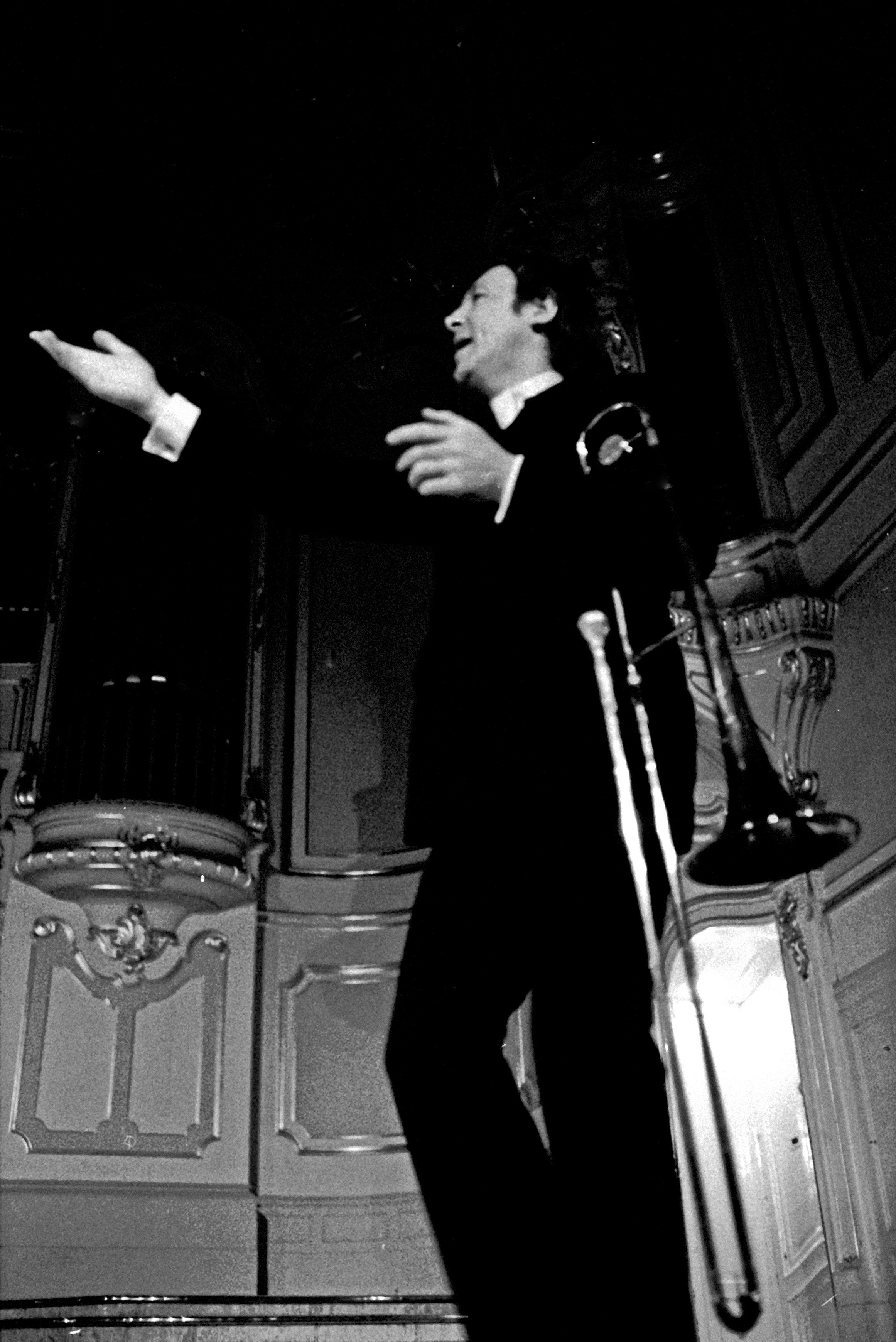 Chris Barber und Band Live in Hamburg, Musikhalle, 1972